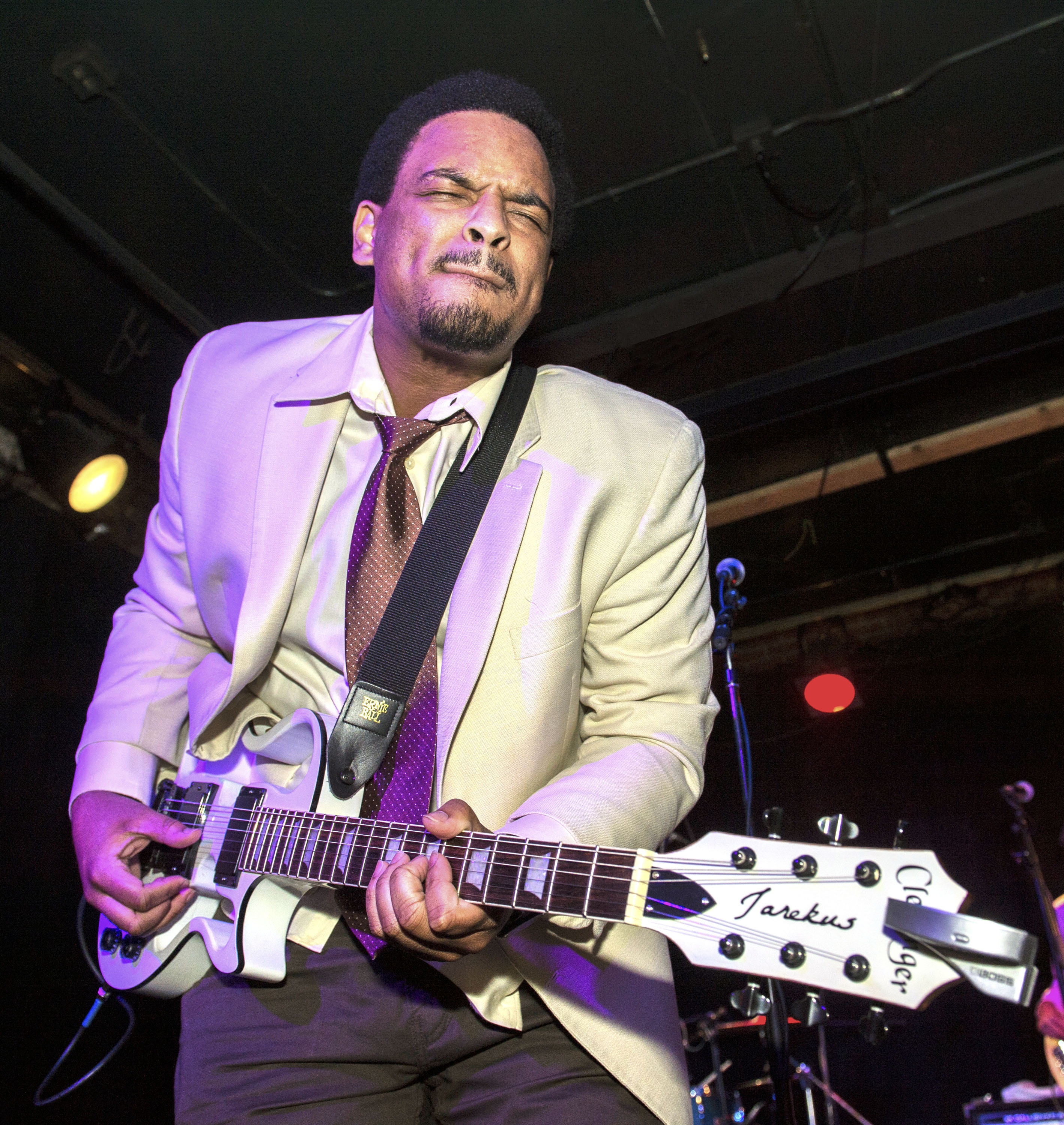 Concert photos taken during the 2014 International Blues Challenge in Memphis by Marilyn Stringer.